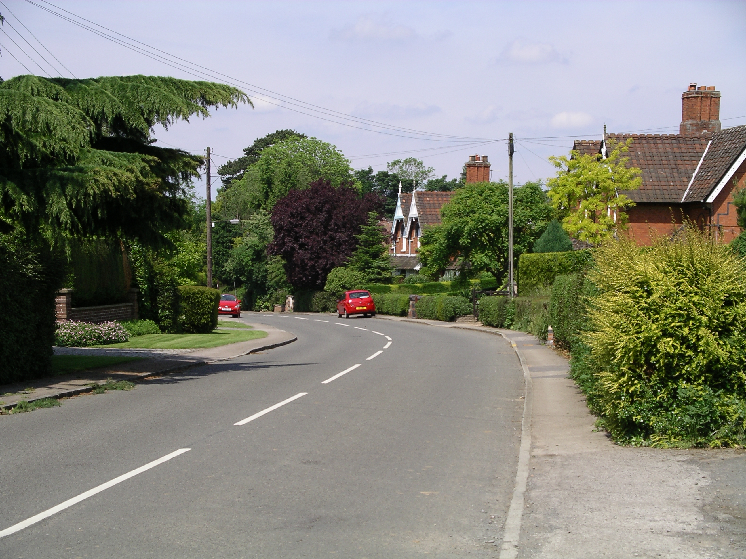 Photo of the main road in Easenhall, a small village in Warwickshire, England